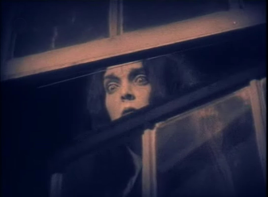 Scenography for the movie Greed. 1924.